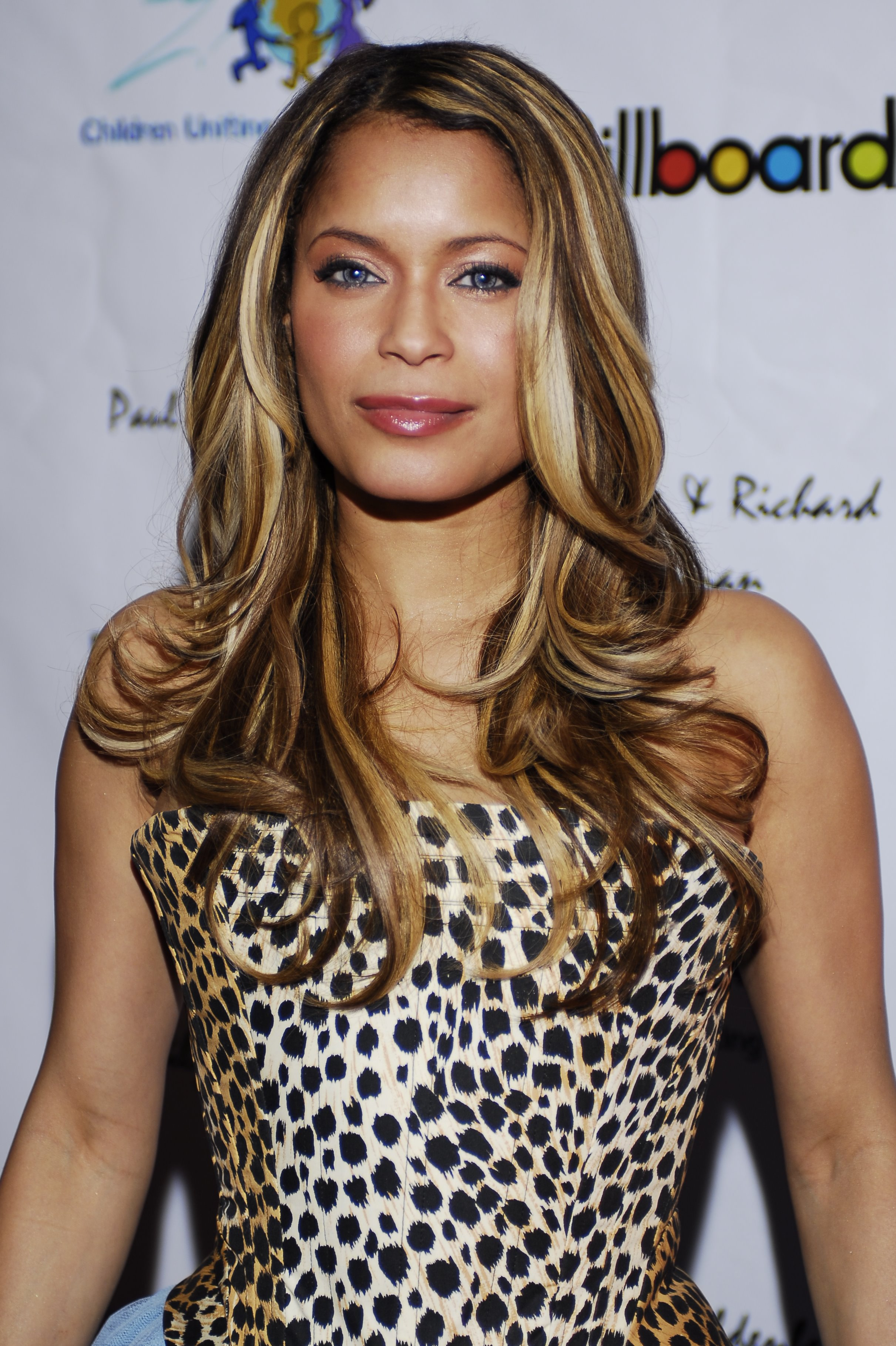 Blu Cantrell at the 79th Annual Academy Awards Children Uniting Nations/Billboard afterparty.